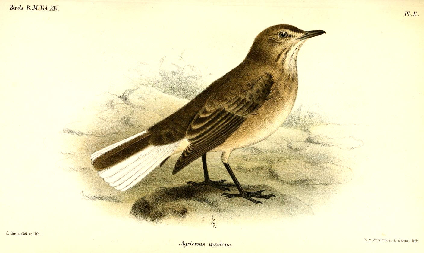 Agriornis insolens = Agriornis montanus insolens, Black-billed Shrike-tyrant